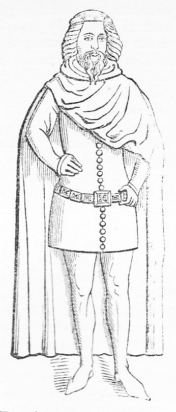 19th.c. drawing of bronze statuette of Lionel, Duke of Clarence on south side of tomb of his father King Edward III at Westminster Abbey. Source: published in Encyclopaedia Britannica, 9th. ed. vol. 6, Costume, p.468